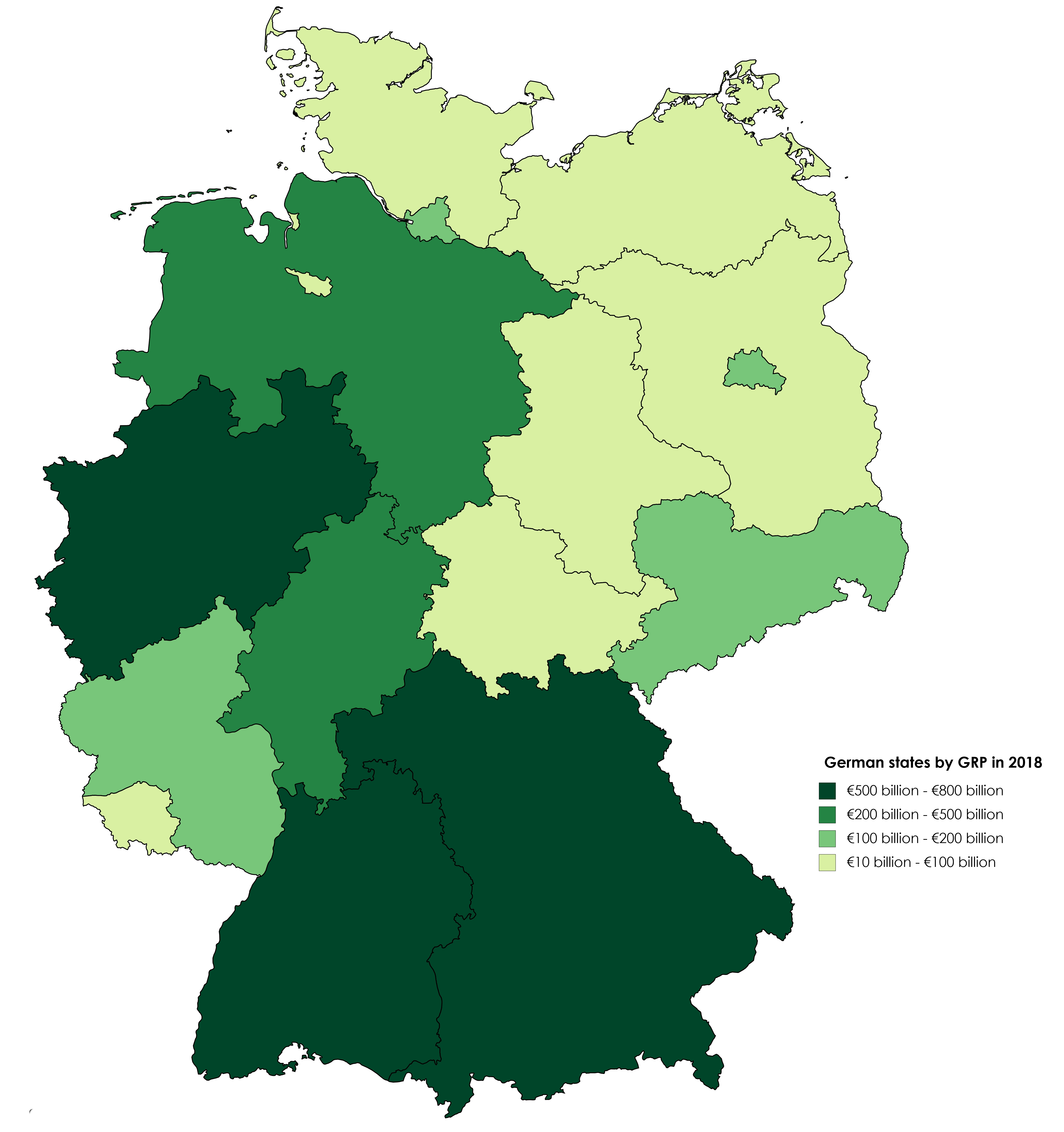 German states by GRP in 2018